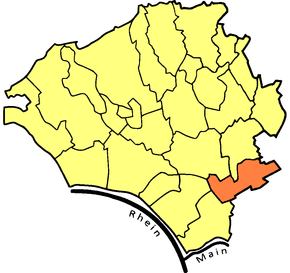 Map of Wiesbaden showing the location of Delkenheim